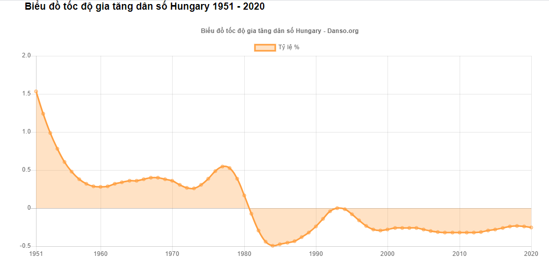 Hungary 's Population Graph